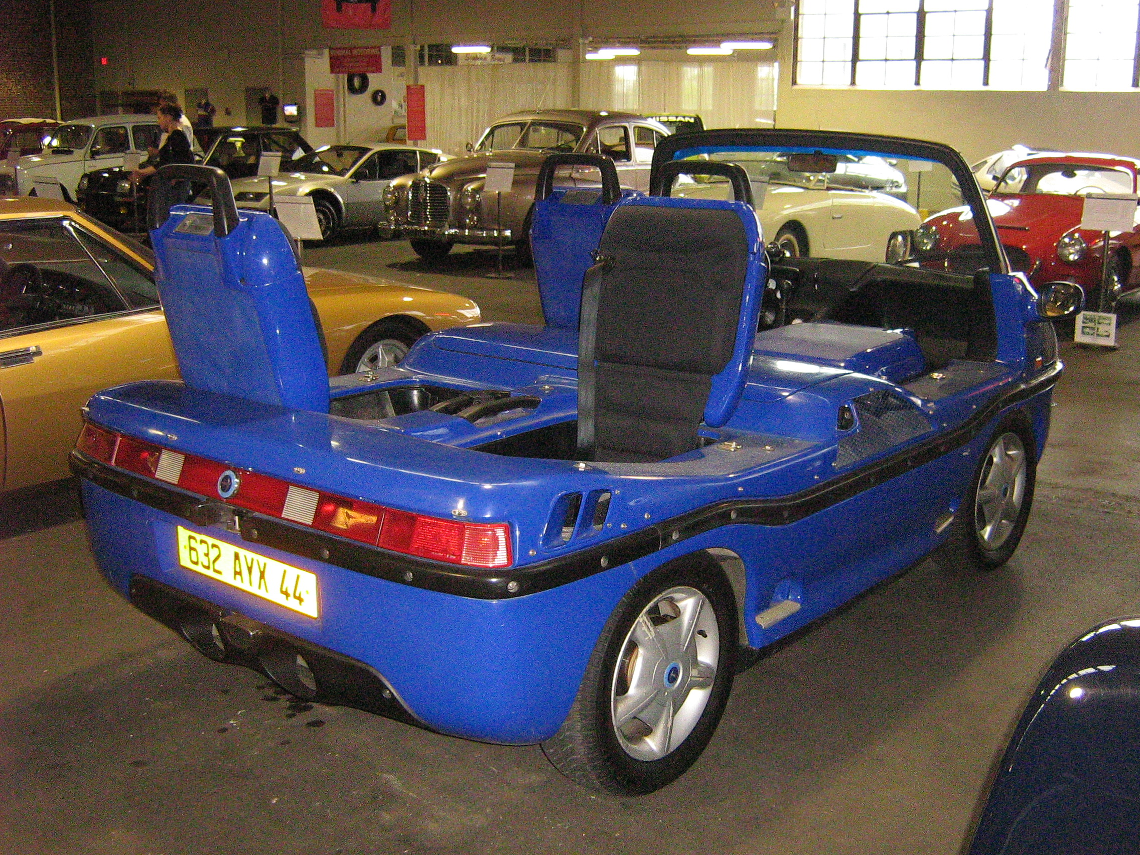 1992 Hobbycar B 612